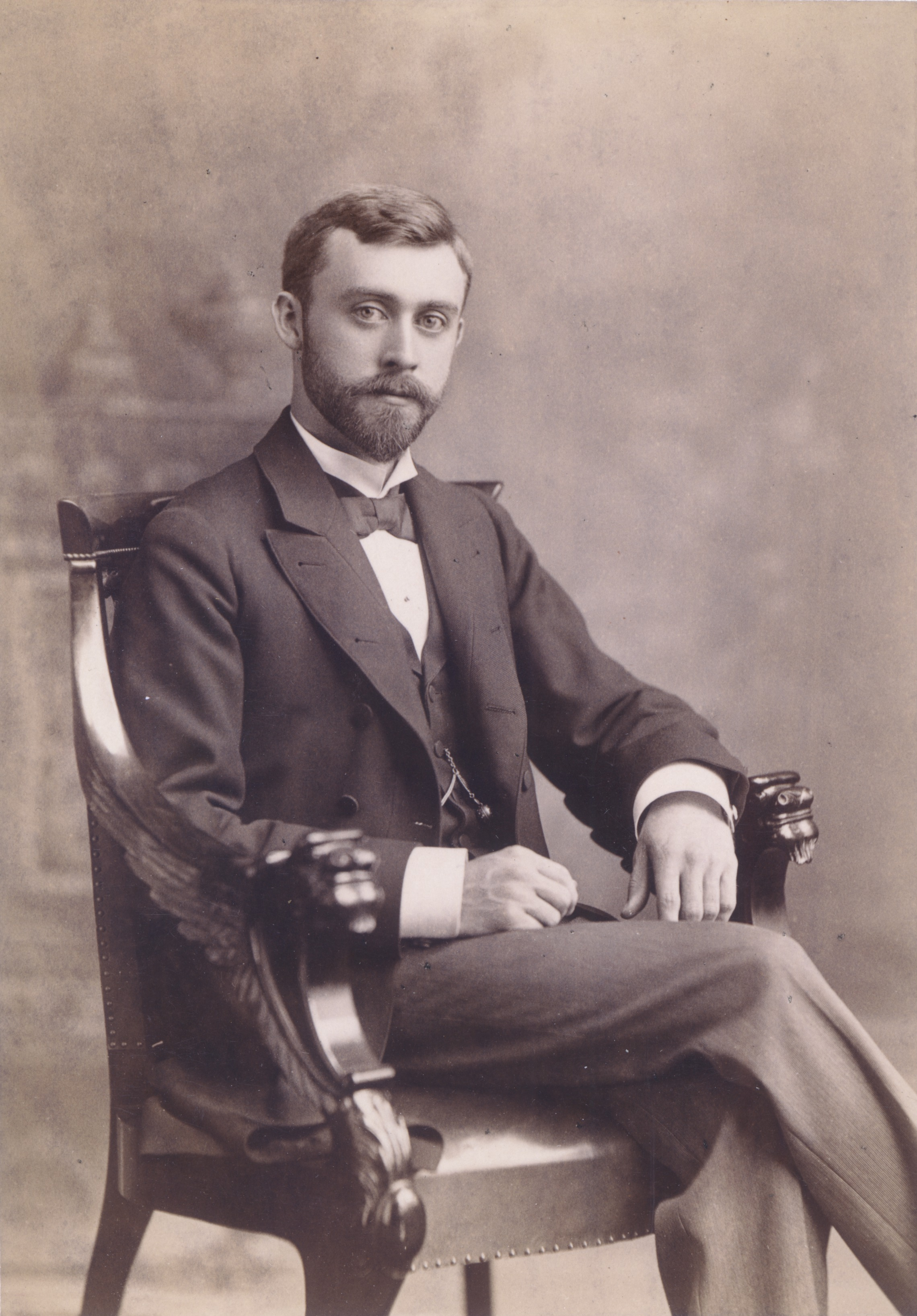 Title: Louis C. Spiering.